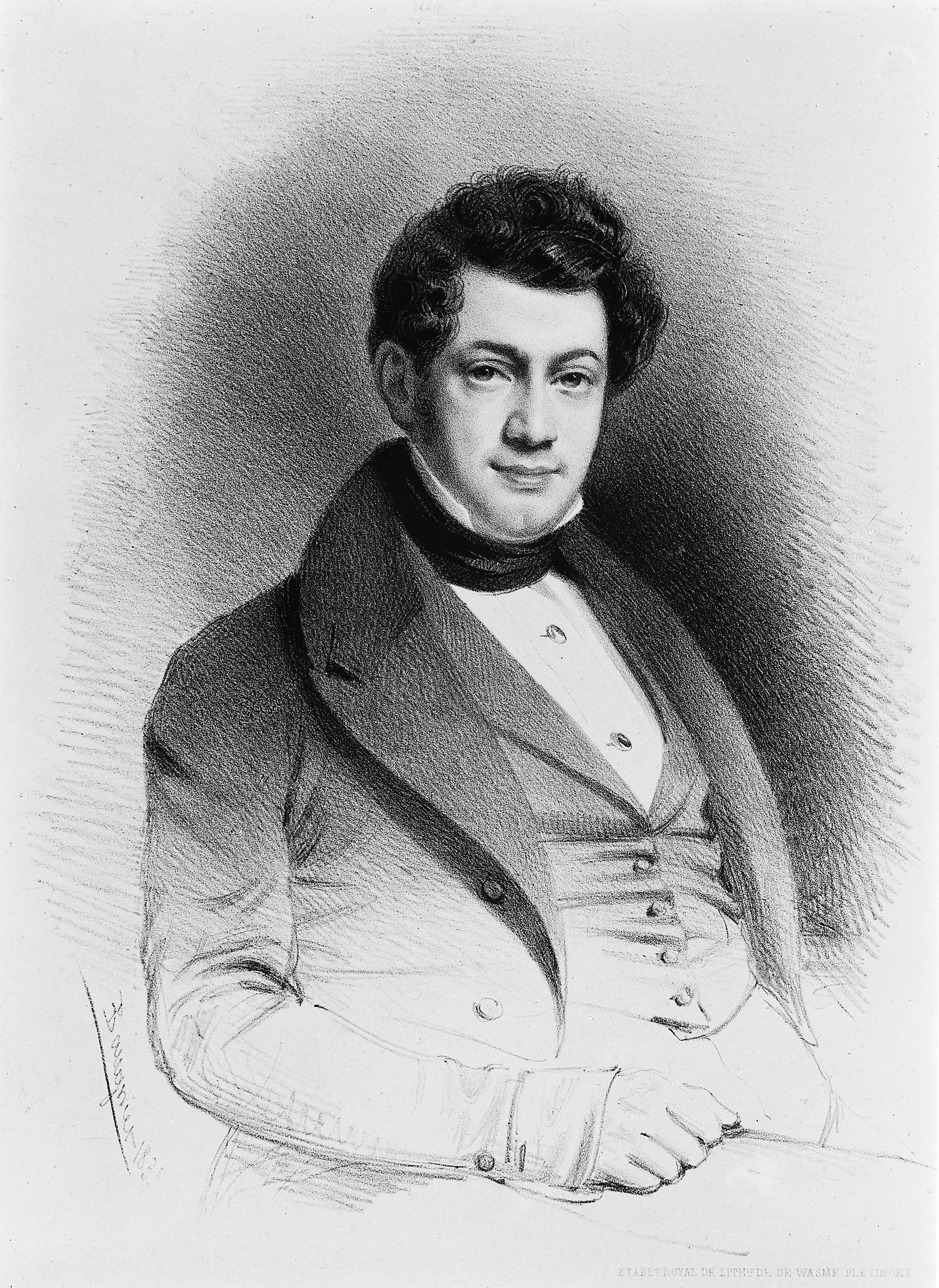 French print. Iconographic Collections Keywords: Carmoly